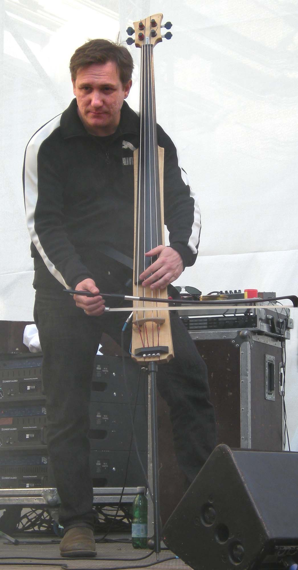 Jamming Europe session at Vienna's annual Stadtfest, 2009. There performed: Soprano vocalist Anna Clementi Mia Zabelka (violin) Jon Sass (tuba) Hanno Leichtmann (percussions) Hannes Strobl (guitar, bass) Note: Camera time is set on UTC, which is local time -2.